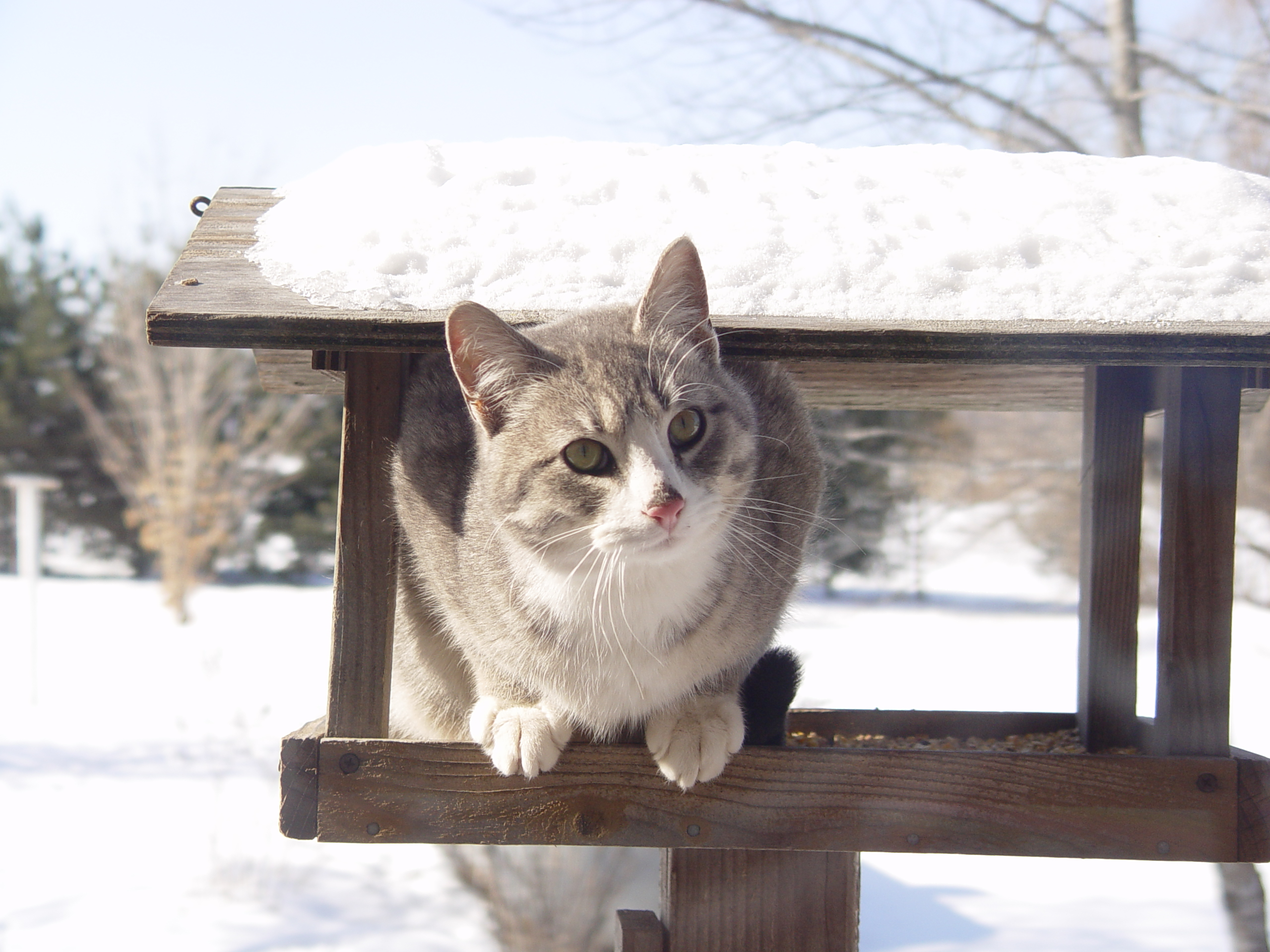 A cat in winter.